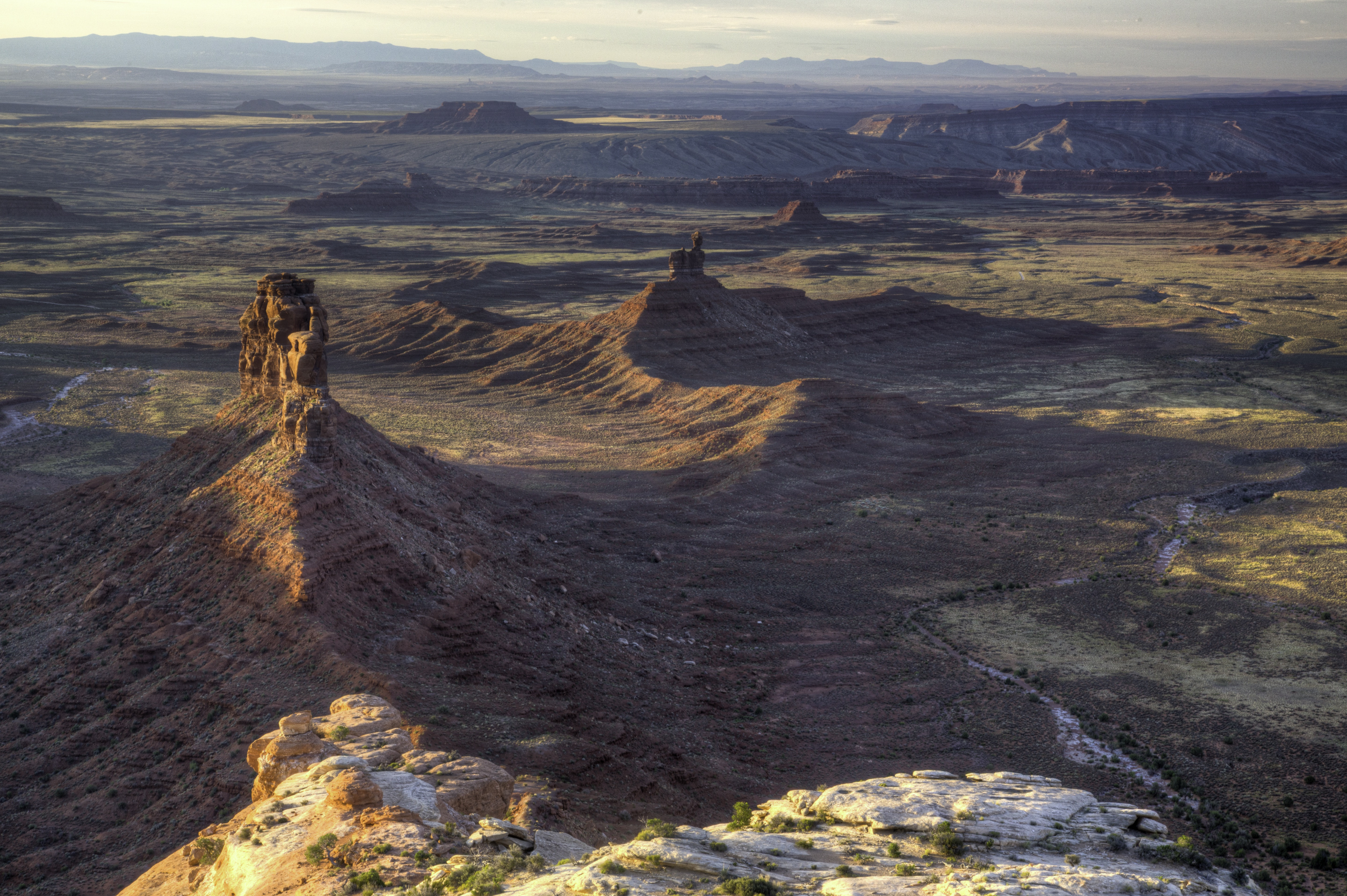 Aerial shot of the Valley of the Gods in Bears Ears National Monument